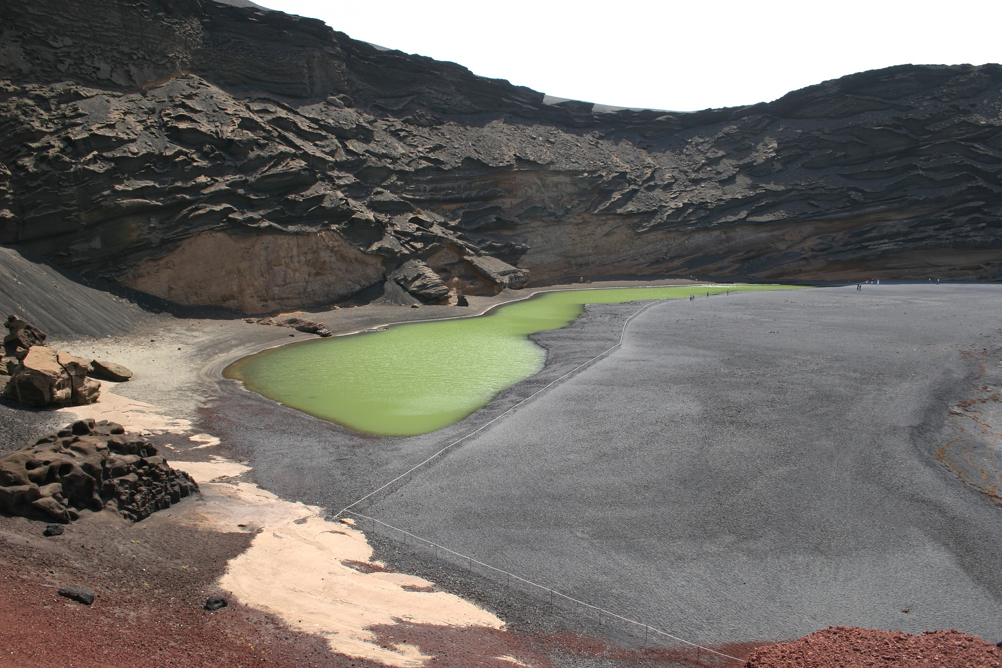 El Golfo on Lanzarote